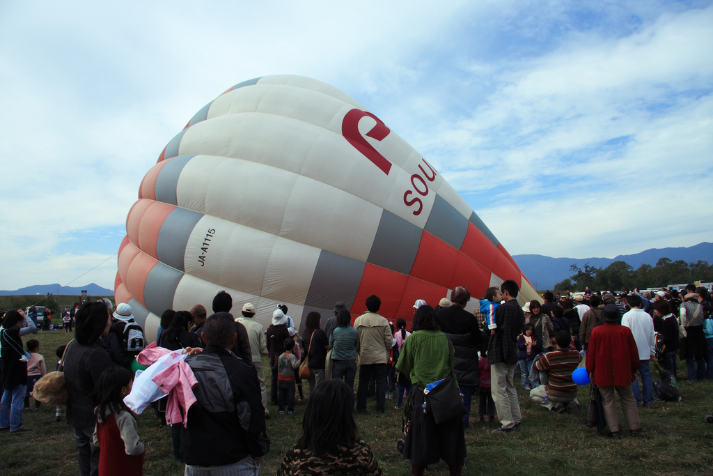 Scene of 2007 Saga International Balloon Fiesta.